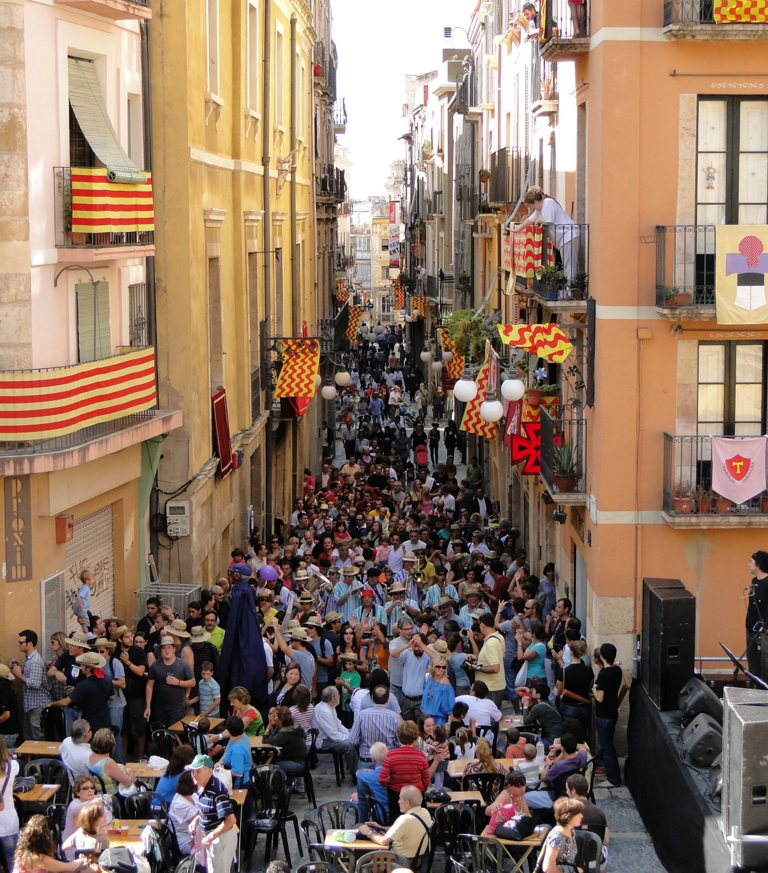 Major street during Santa Tecla Festival, Tarragona, Spain